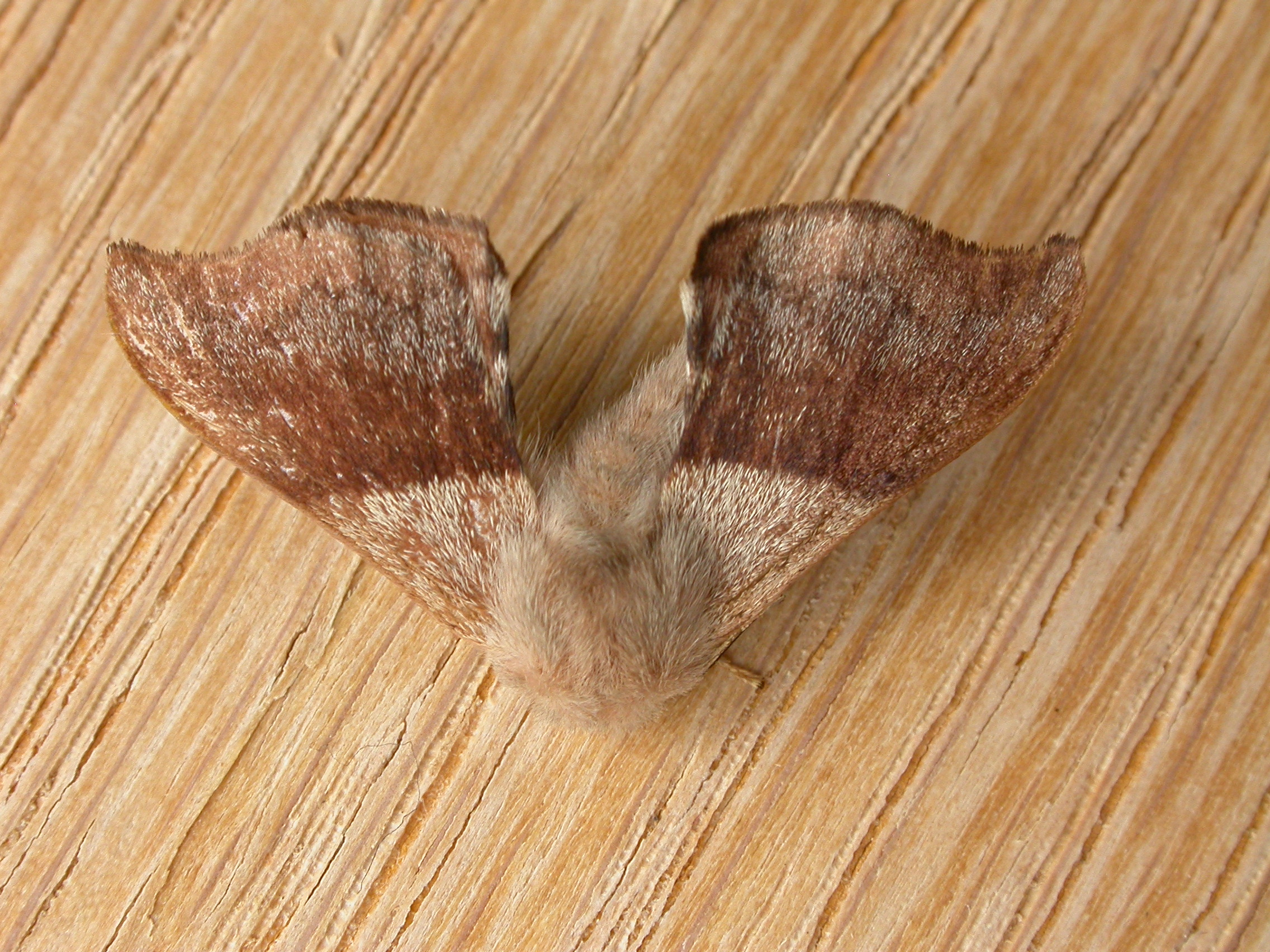 Panacela lewinae (Lewin, 1805), male, to MV light, Blackheath, NSW, 23/24 January 2011